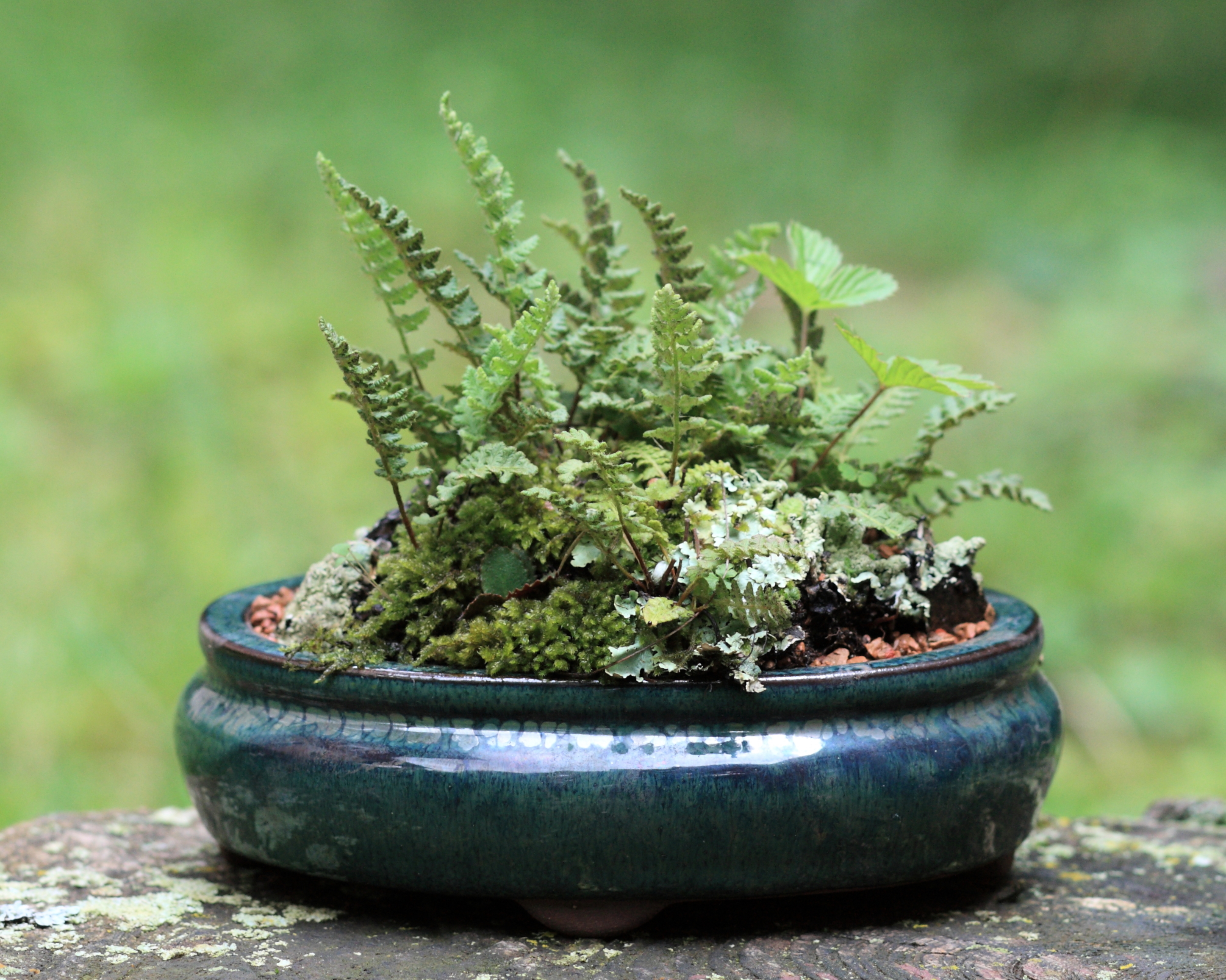 A Kusamono ('grass thing') created from plants collected in Connecticut, including fern, strawberry, mosses and lichens